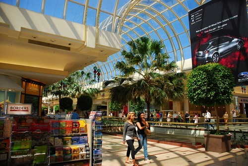 Chadstone Shopping Centre in Melbourne, Victoria, Australia. It is the biggest shopping mall in South Hemisphere.